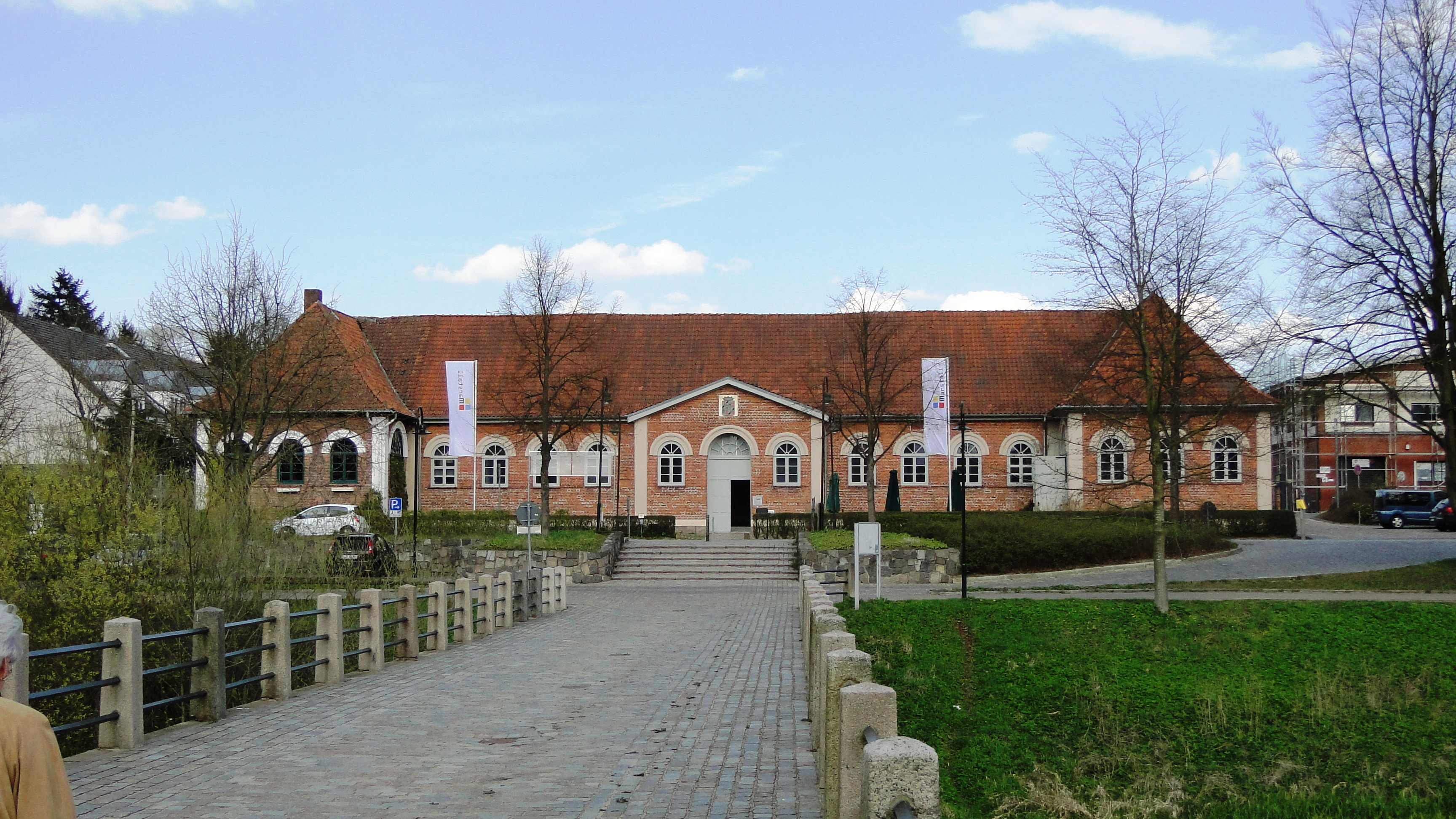 Gutshof of Schloss Ahrensburg in Schleswig-Holstein, near Hamburg, 2012